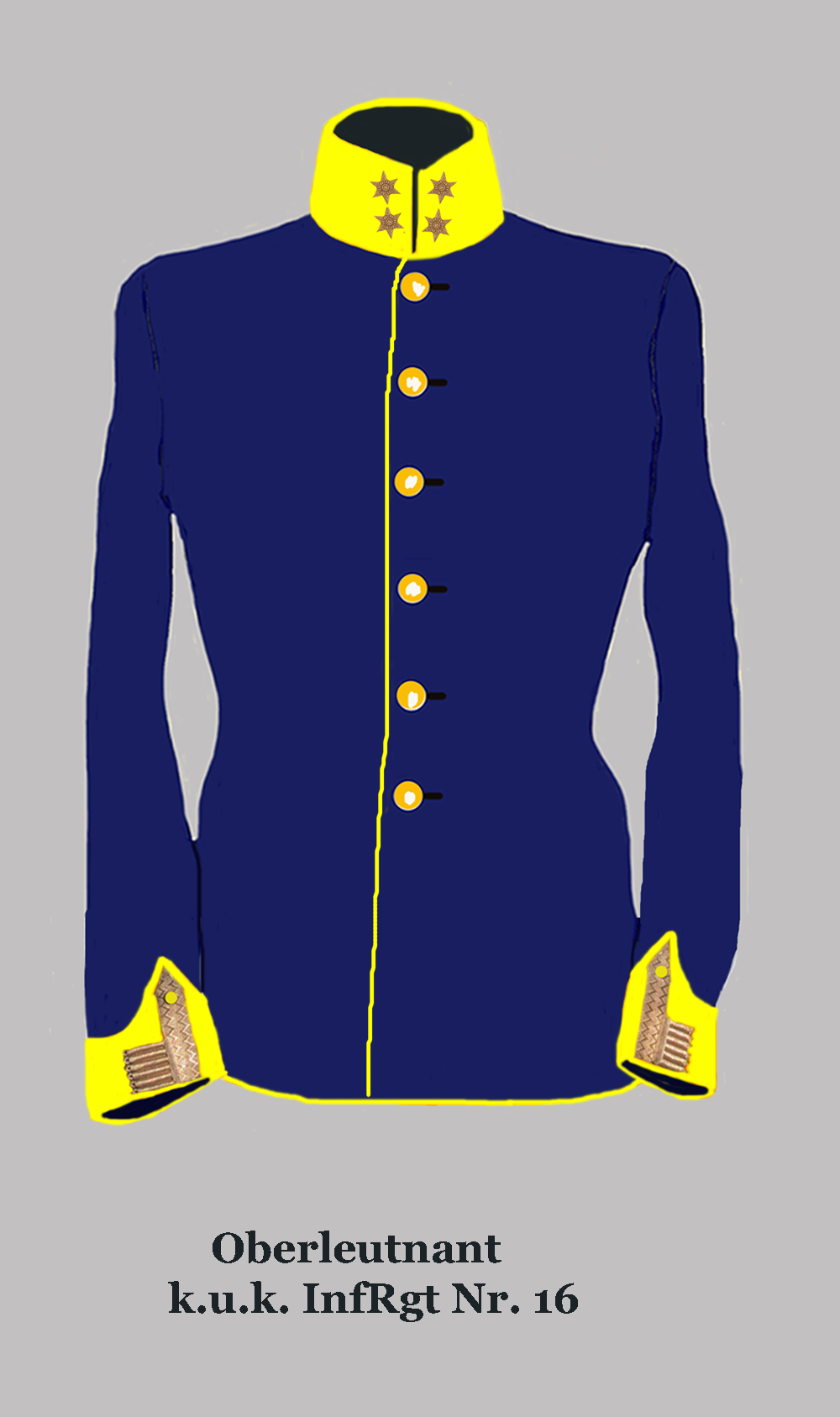 1st Lieutenant of the Austria-Hungarian infantry (Hungarian style tunic with yellow regimental identification color and yellow buttons)